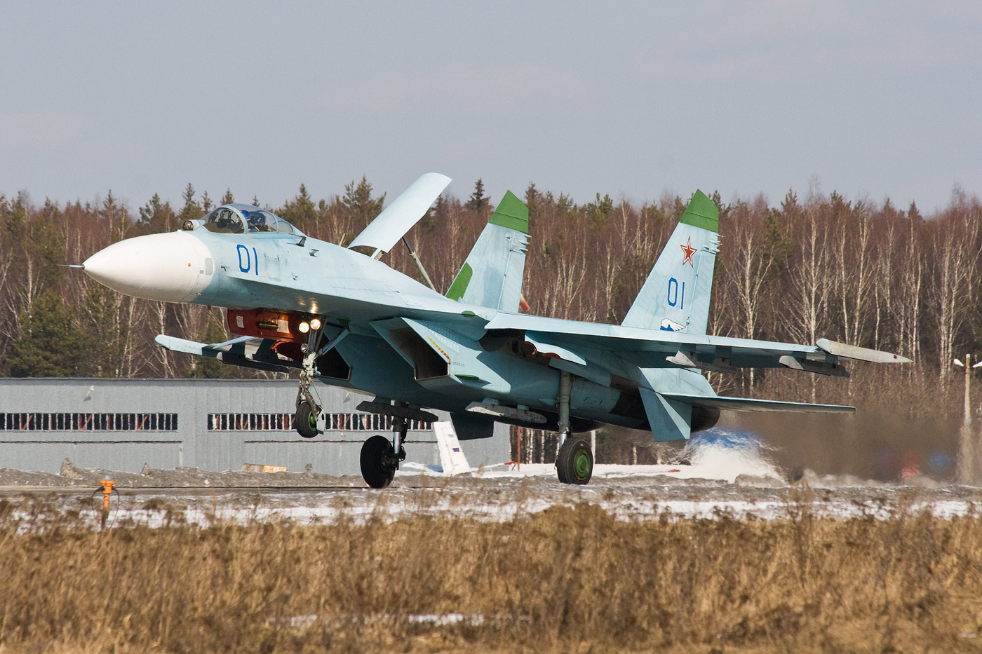 Sukhoi Su-27 from Russian Knights aerobatic team on landing, Kubinka